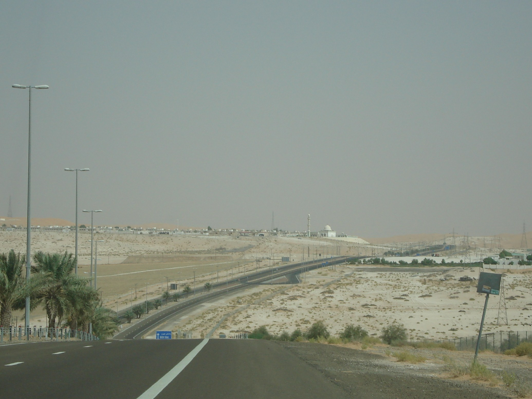 Highway connecting the villages of the Liwa Oasis